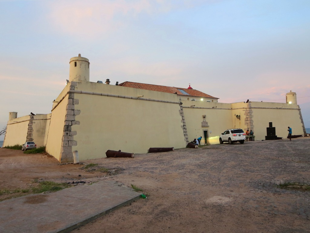 The Sao Tome National Museum is housed in the Forte de Sao Sebastiao (1575) in Sao Tome, São Tomé and Príncipe.